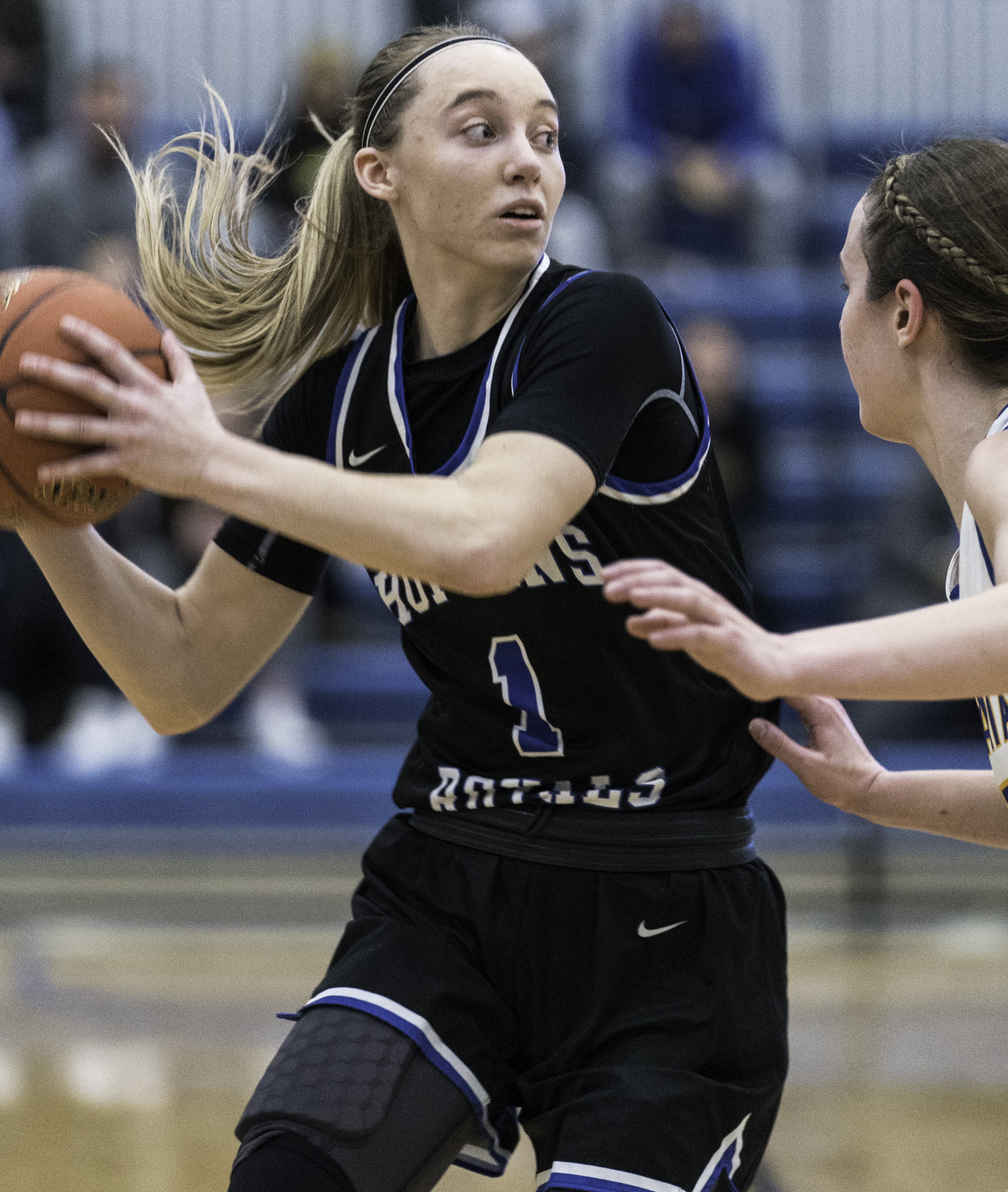 Bueckers, a point guard, has played on Hopkins High School varsity squad since 8th grade. She's a 4x gold medalist with Team USA and was MVP of the FIBA U19 Tournament in the summer of 2019. She is a consensus five-star recruit and the number one player in the 2020 class and has committed to play college basketball for UConn.